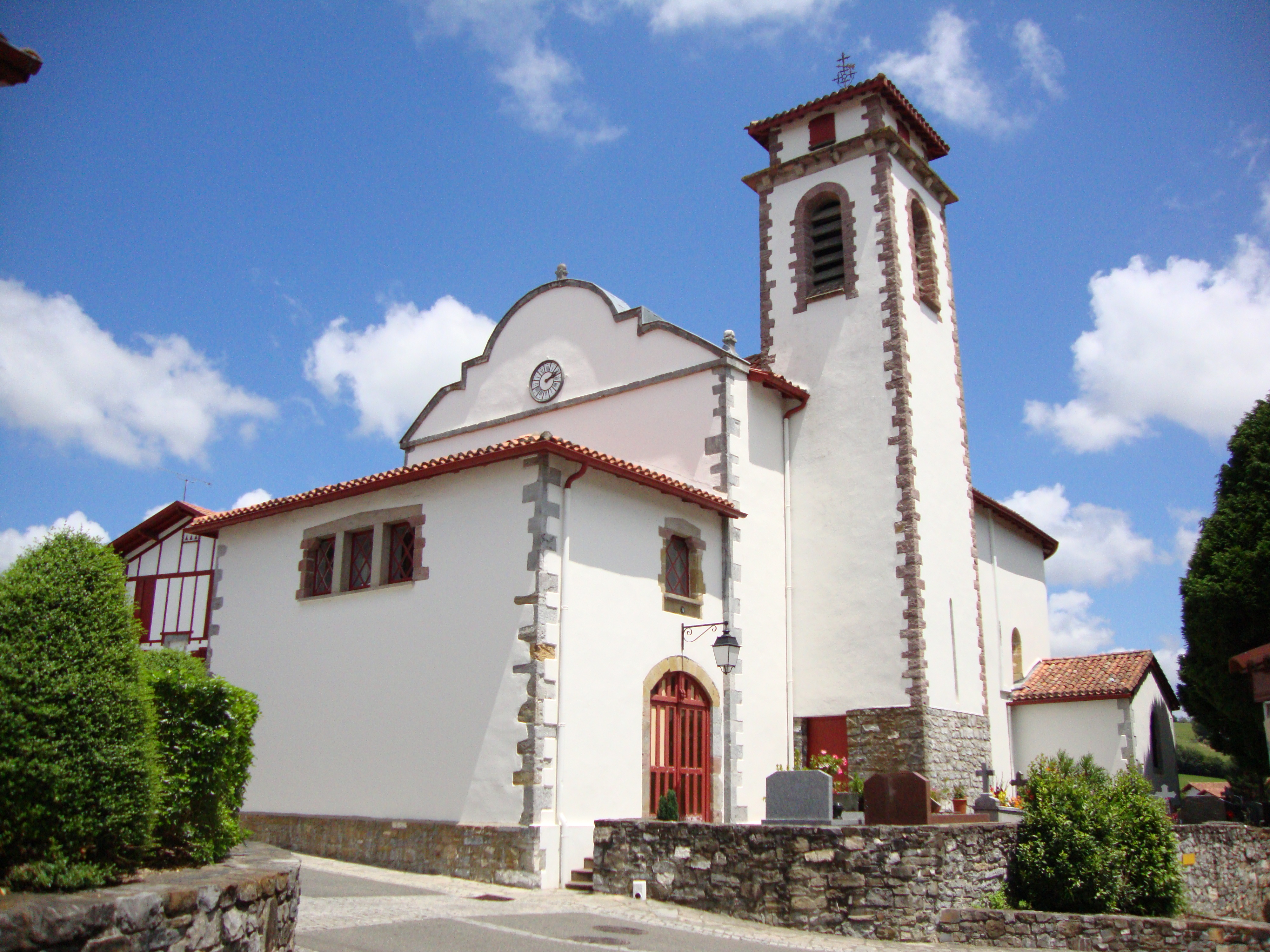 Souraïde (Pyr-Atl., Fr) St.Jacques church exterior with tower.